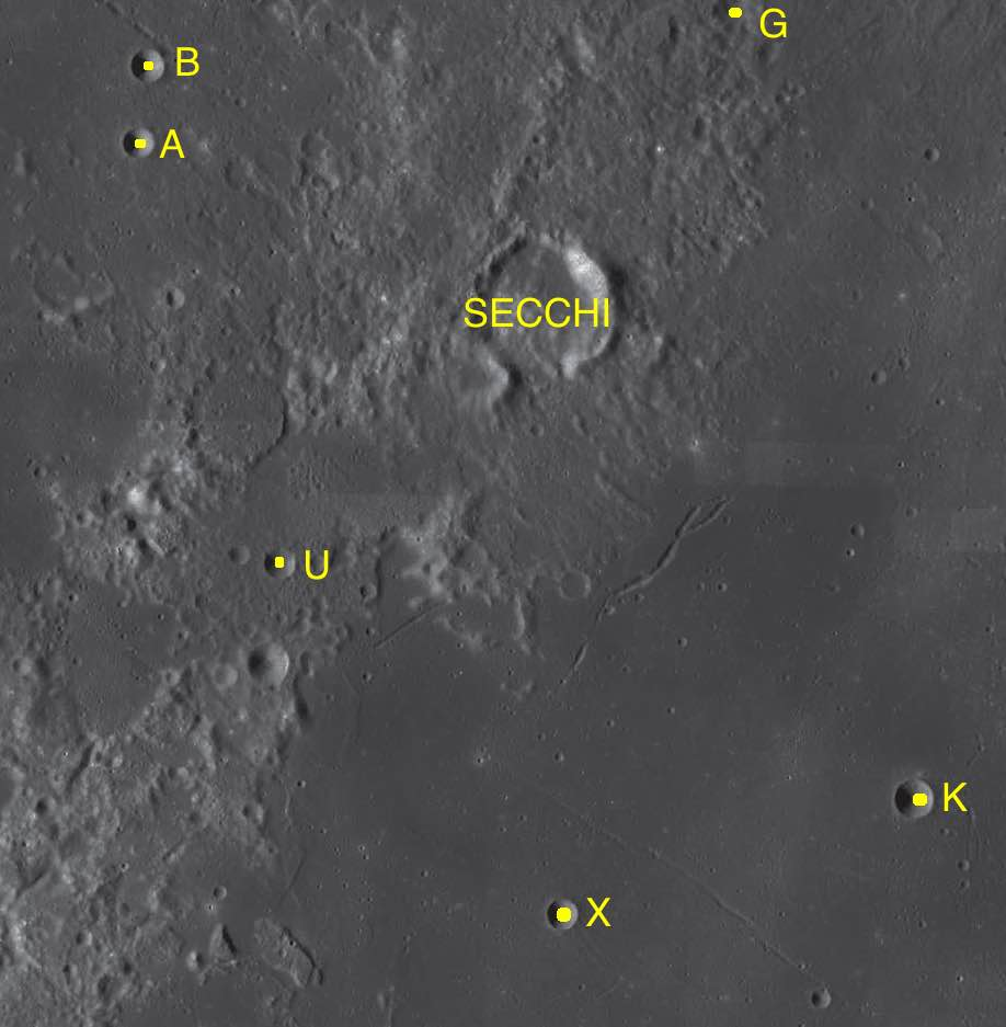 Parts of t,he charts LAC-61, LAC-79 used for the presentation.